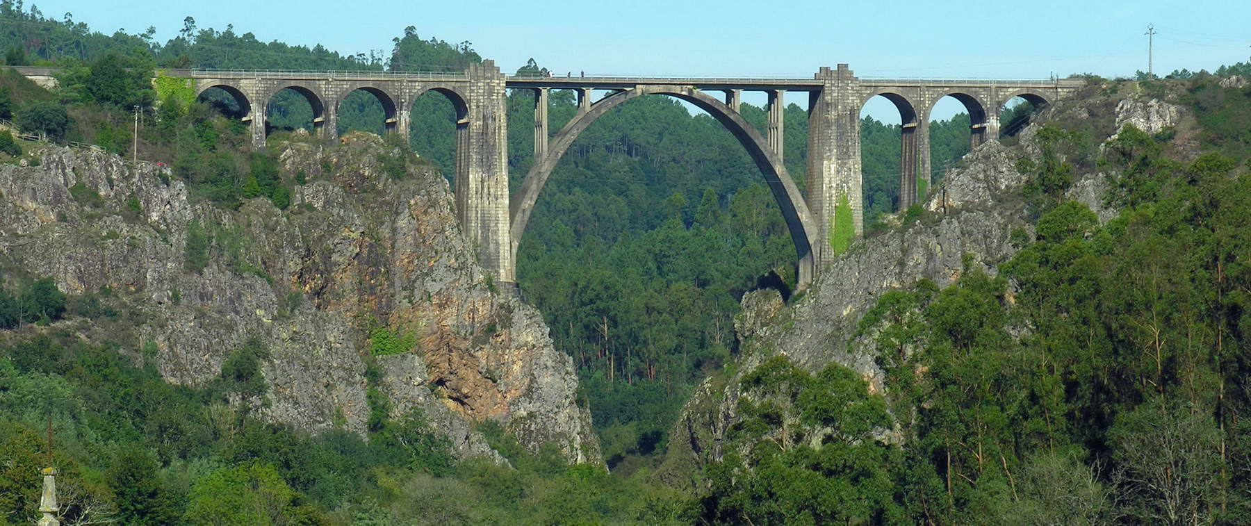 Publish by= Luis Miguel Bugallo Sánchez.